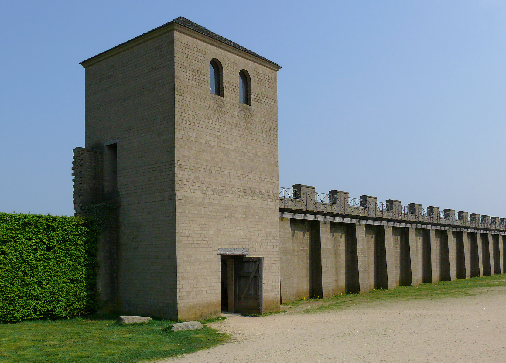 Reconstructed Roman city walls in the archeological park of Xanten (Colonia Ulpia Traiana) See Xanten stadtmauer